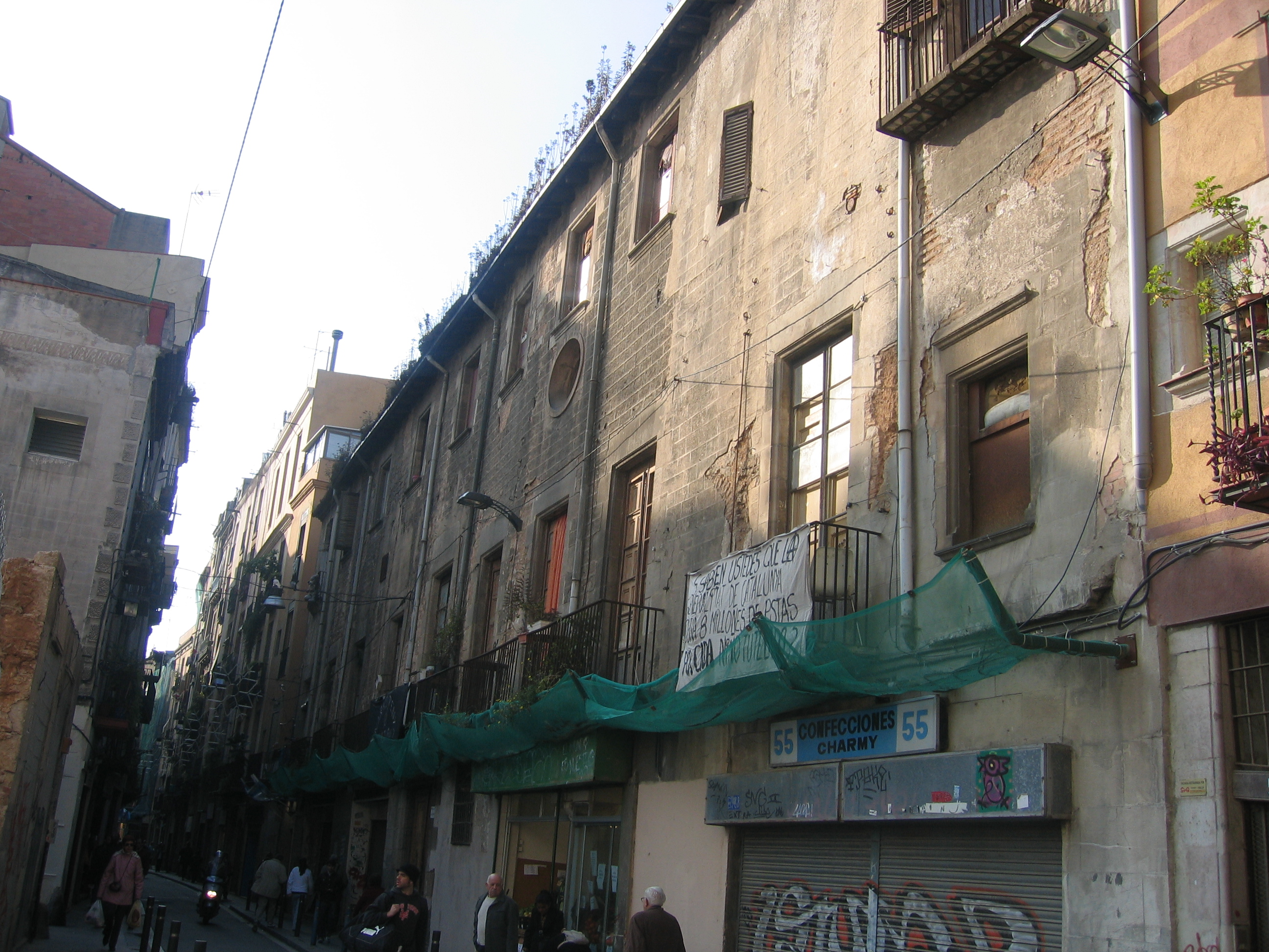 Side view of the facade of the Palau Alòs in 2005, before restoration